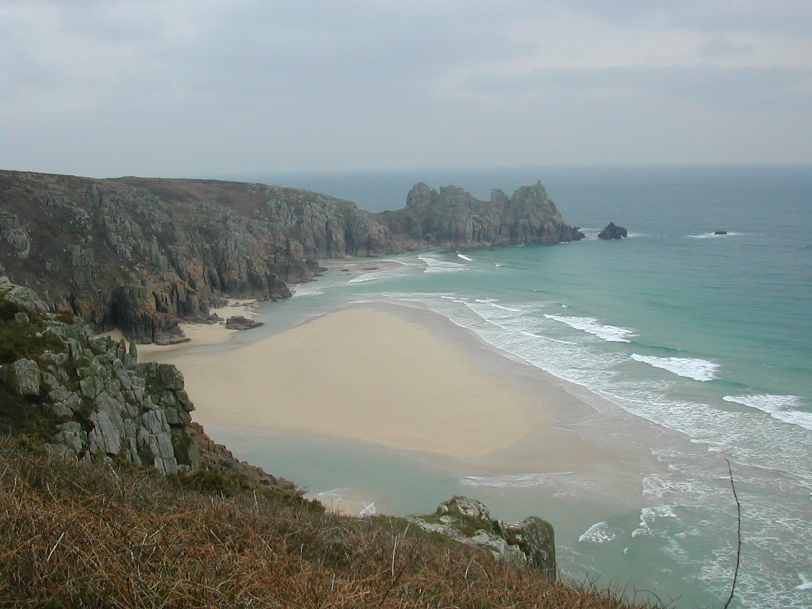 Treen beach, with the Logan Rock headland in the background, near Porthcurno, Cornwall, United Kingdom Author Chris Ango March 2006